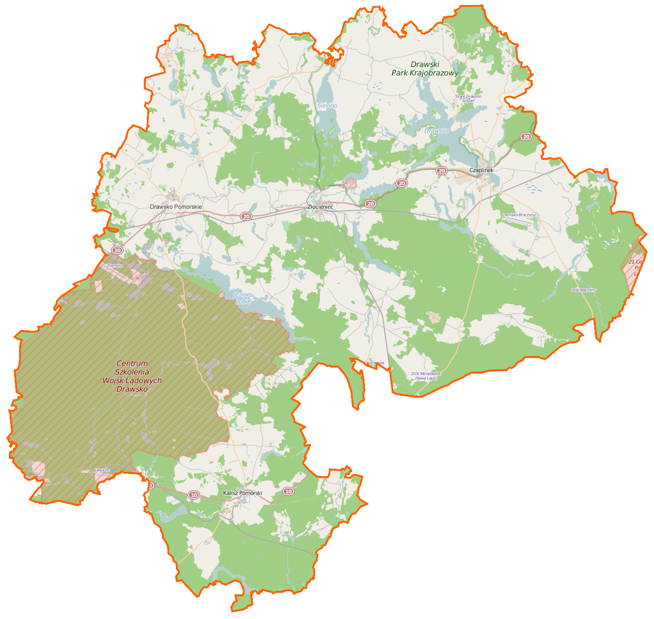 Map of Powiat drawski, Poland This map of Powiat drawski was created from OpenStreetMap project data, collected by the community. This map may be incomplete, and may contain errors. Don't rely solely on it for navigation.